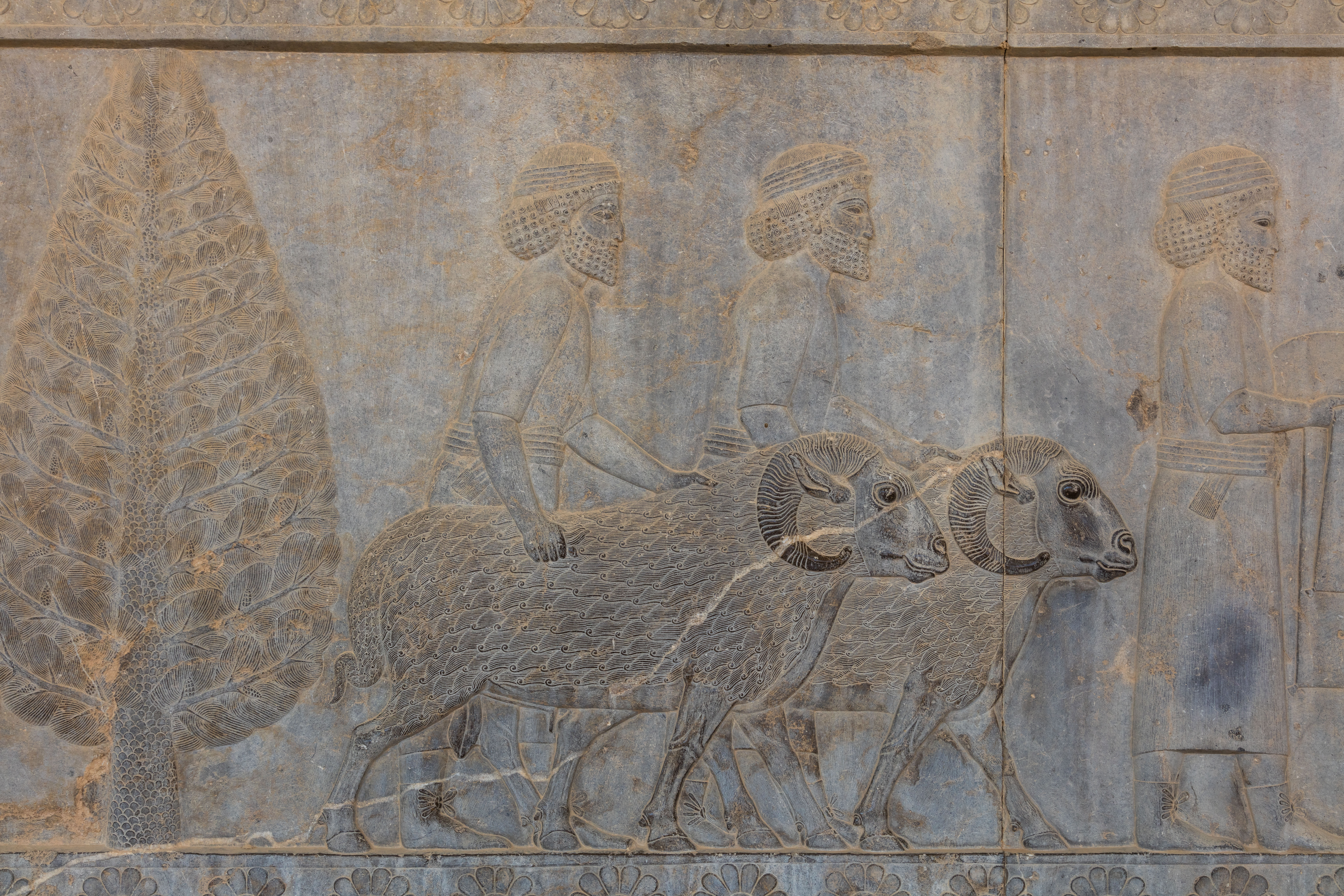 Persepolis, Iran